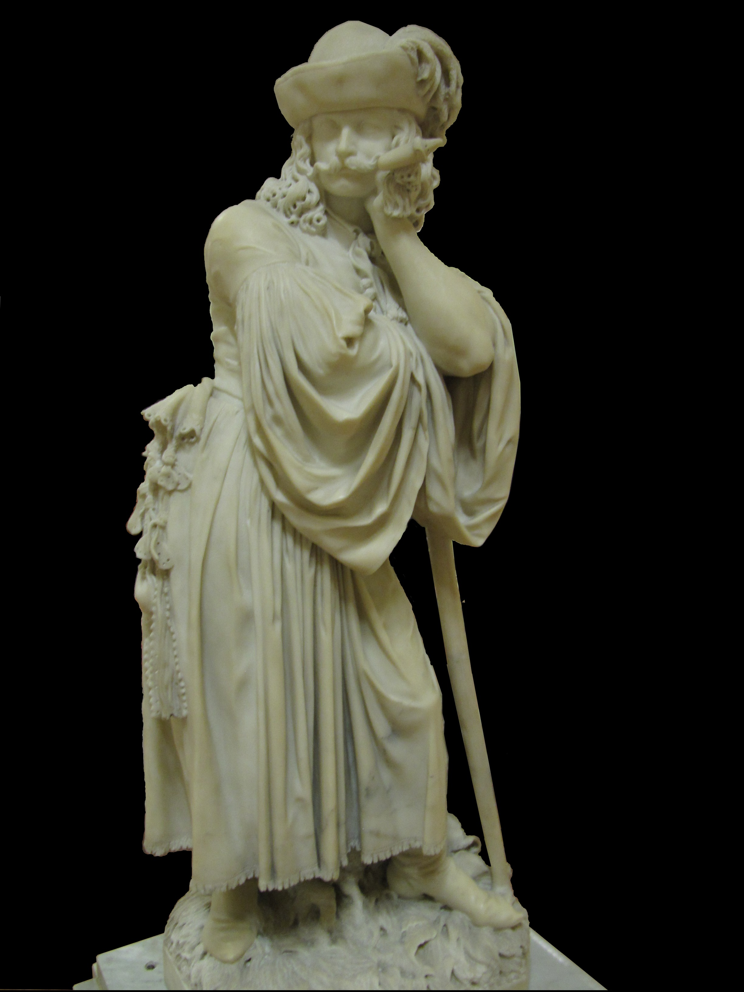 Miklós Izsó's "Búsuló Juhász" ("Grieving Shephard") (1862) in the Hungarian National Gallery with background removed